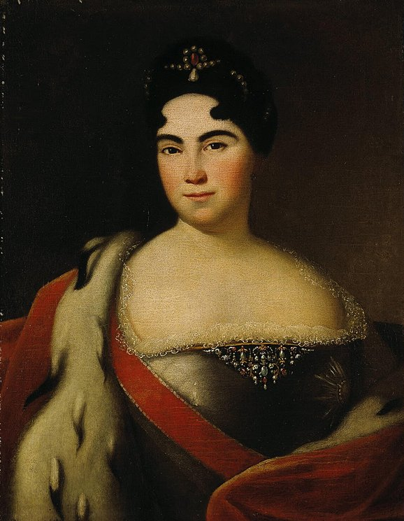 Portrait of Catherine I Portraiture Source of entry: State Museum of Ethnography of the Peoples of the USSR, Leningrad, 1941 Exibition: The Winter Palace of Peter I